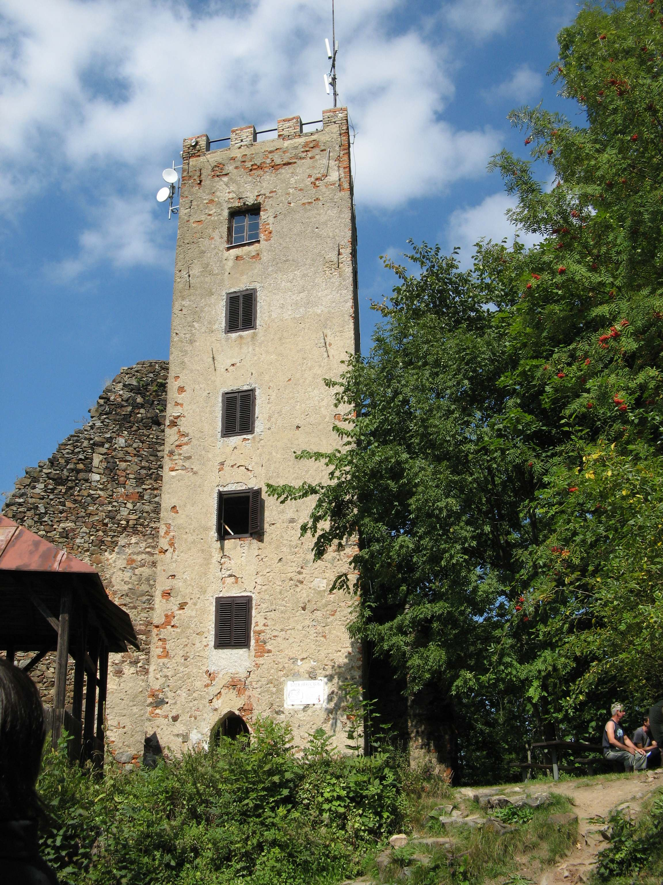 Rýzmberk castle near town Kdyně, Czech Republic